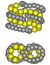 Cycloamylose comprising 26 glucose units